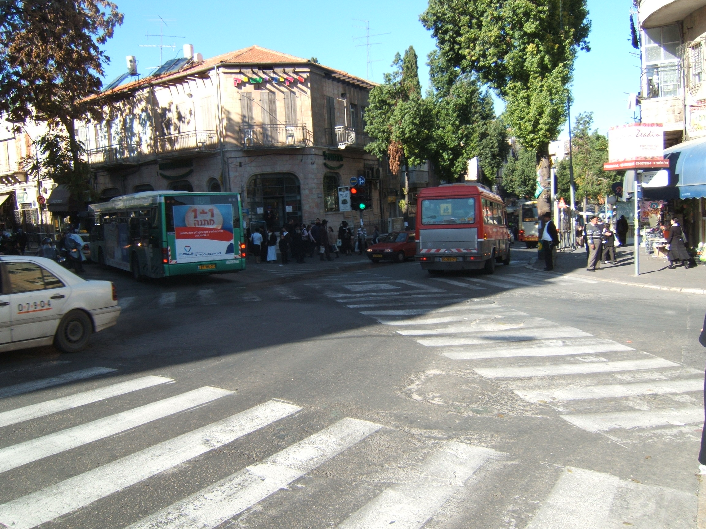 Kikar Hashabat , jerusalem